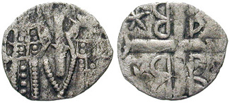 Johannes V Palaeologus with Johannes VI Cantacuzenus (1341-1391). Billon Tornese (0.39 gm). Constantinople mint. Struck 1347-1353. Cross; B's and stars in angles / The emperors standing, facing, holding labarum (?) between them. DOC V 1197; SB 2533. Byzantine currency